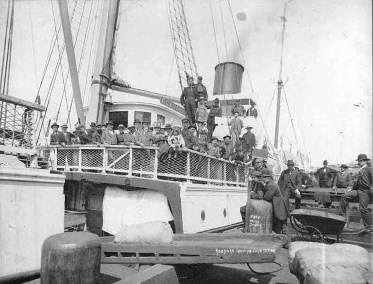 Caption on image: No. 872. Wilse Seattle. Roanoke leaving June 13th '98 Written on verso: The Roanoke leaving for Alaska, Seattle, June 12 1898. Bill I on front. Wilse 872 PH Coll 285.10 Subjects (LCTGM): Passengers--Washington (State)--Seattle; Piers & wharves--Washington (State)--Seattle; Waterfronts--Washington (State)--Seattle Subjects (LCSH): Roanoke (Steamship); Steamboats--Washington (State)--Seattle